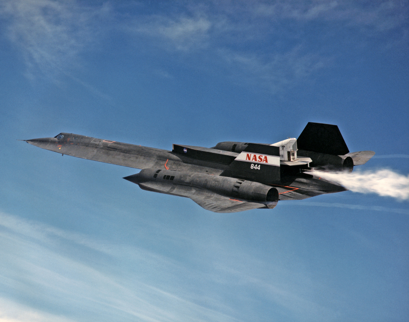 The NASA SR-71A successfully completed its first cold flow flight as part of the NASA/Rocketdyne/Lockheed Martin Linear Aerospike SR-71 Experiment (LASRE) at NASA's Dryden Flight Research Center, Edwards, California on March 4, 1998.)